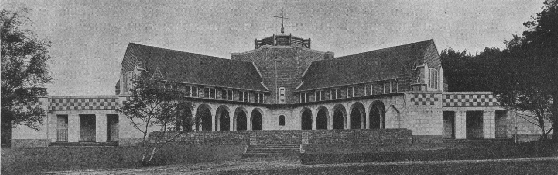 South front of the open-air chapel of the King Edward VII Sanatorium, Midhurst, Sussex designed by Charles Holden, 1903-1906